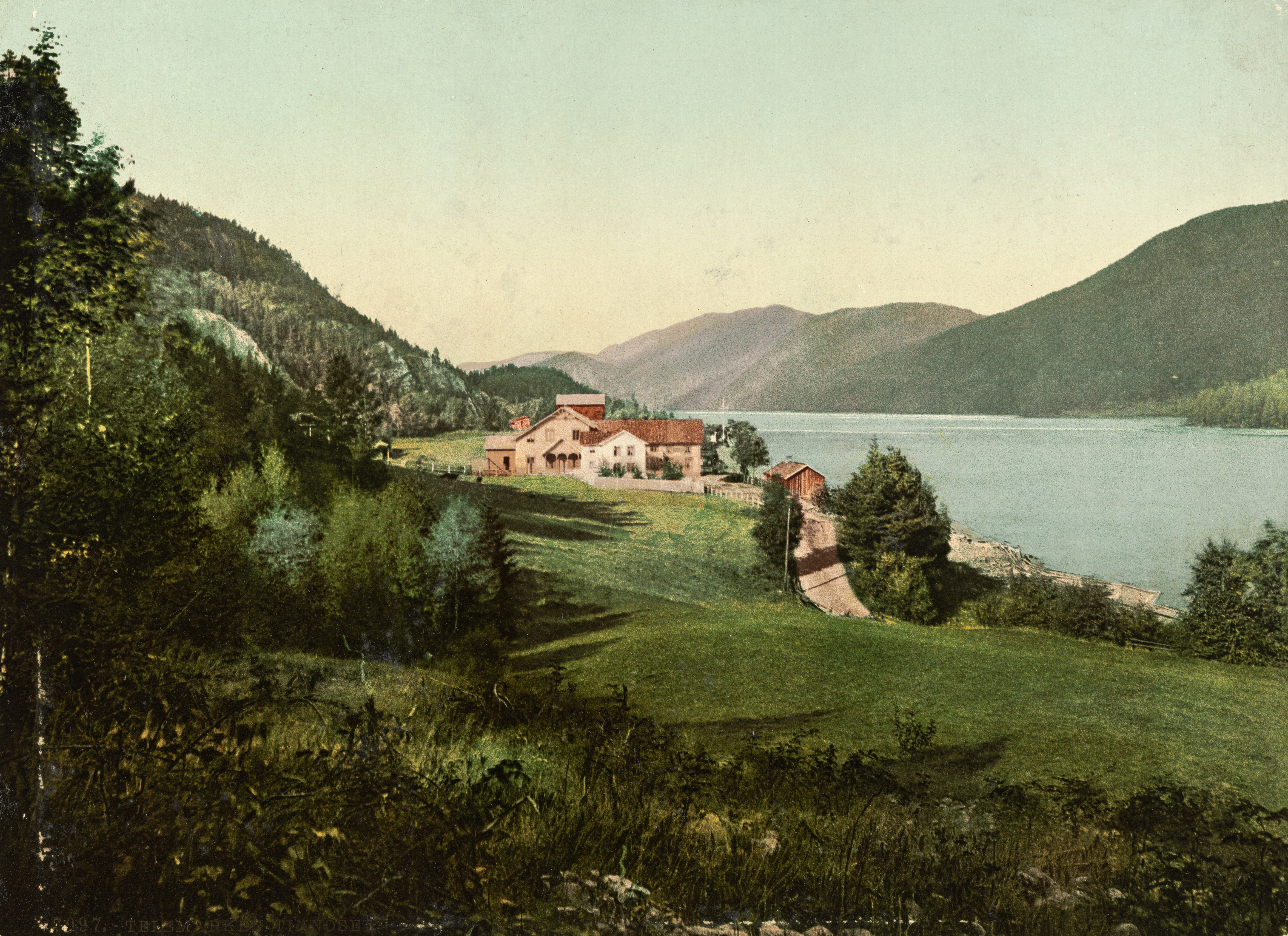 Dato / Date: ca. 1890-1900 Sted / Place: Telemark, Notodden, Tinnoset Fotograf / Photographer: ukjent / unknown Digital kopi av original / Digital copy of original: photochrom Eier / Owner Institution: Nasjonalbiblioteket / National Library of Norway Lenke / Link: Bildesignatur / Image Number: blds_07607